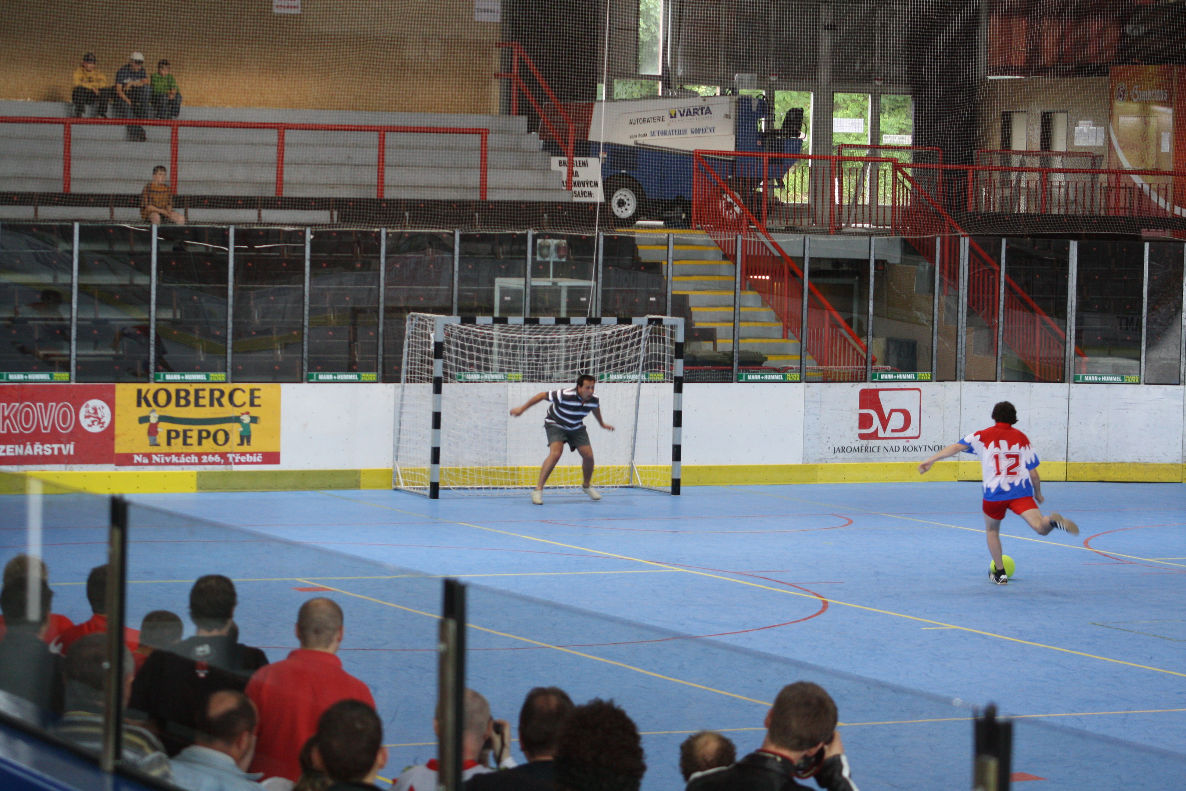 Penalty in futsal match in HS Třebíč vs. Fans.